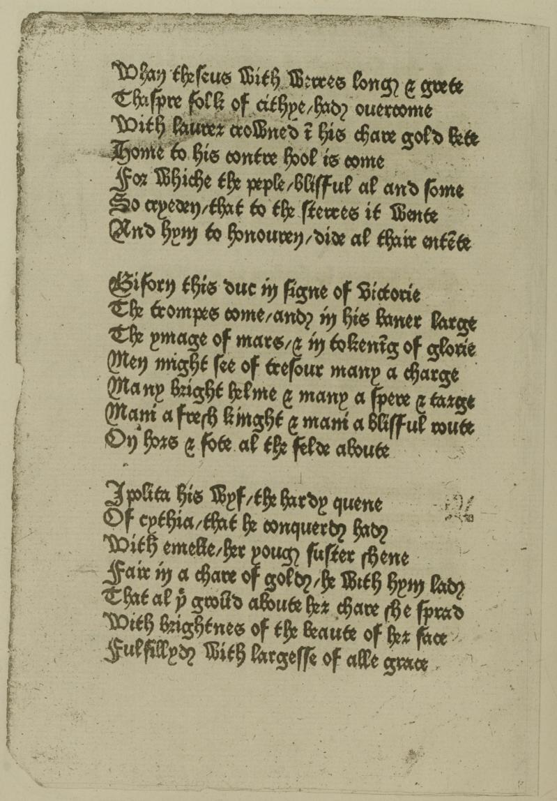 Original Chaucer manuscript of Anelida/Arcite